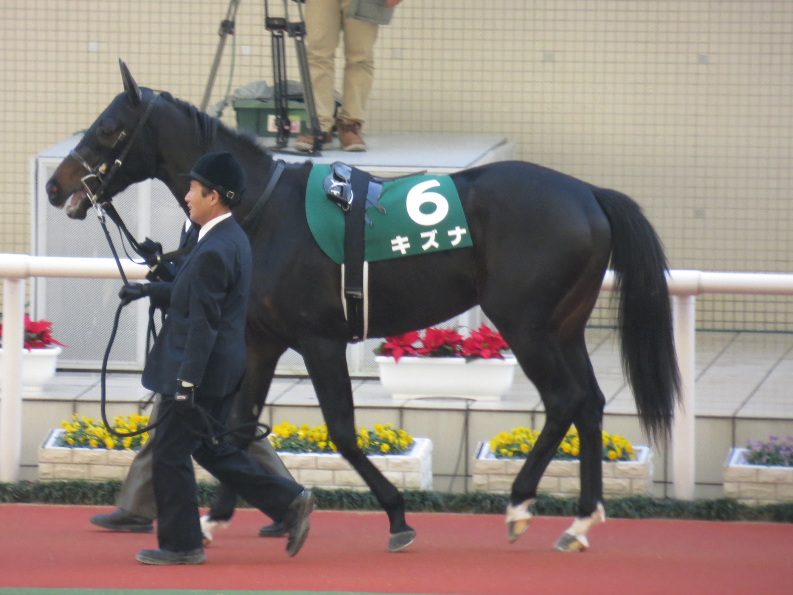 Kizuna (Racehorse of Japan).